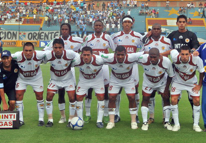 inti gas deportes ayacucho equipo libertador